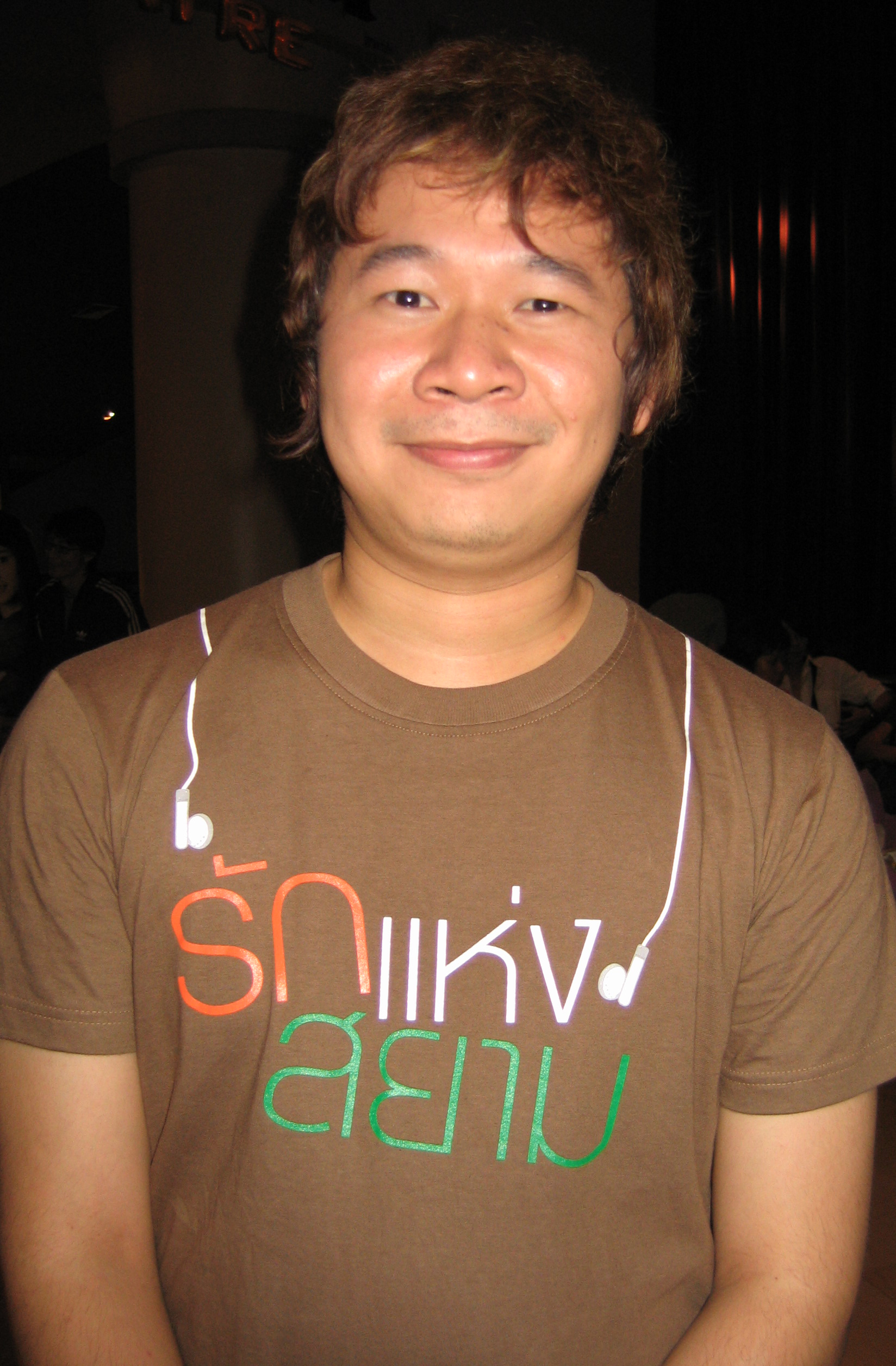 Thai film director and screenwriter Chukiat Sakweerakul attends the press premiere of The Love of Siam at Siam Paragon.